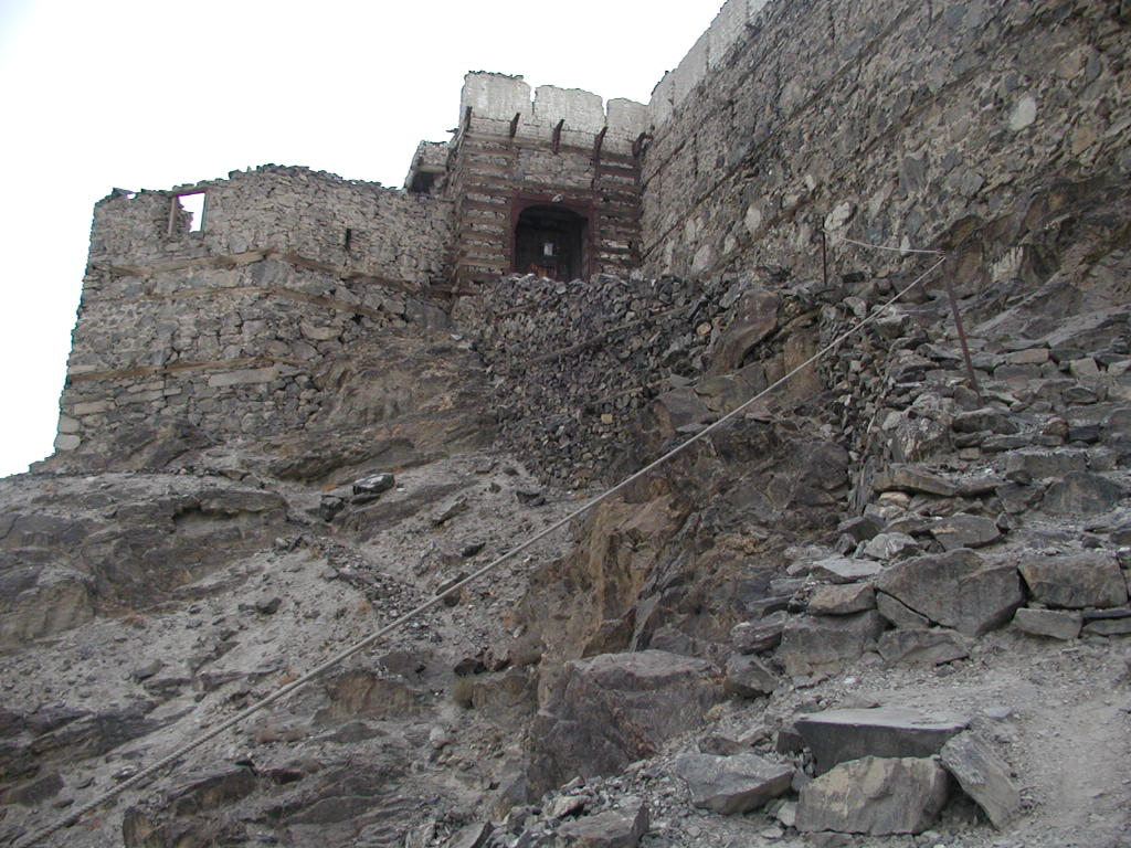 The entrance of the Skardu Fort. Wikipedia article on Skardu Wikipedia article on Skardu Fort Image by Waqas Usman. More images at and